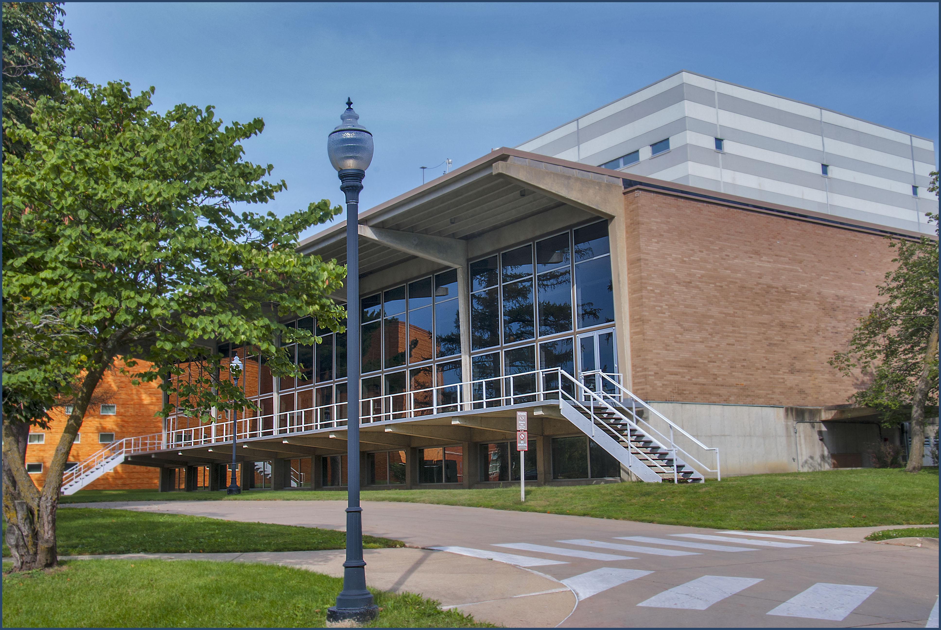 Grinnell College's Burling Library, in Grinnell, Iowa, United States.